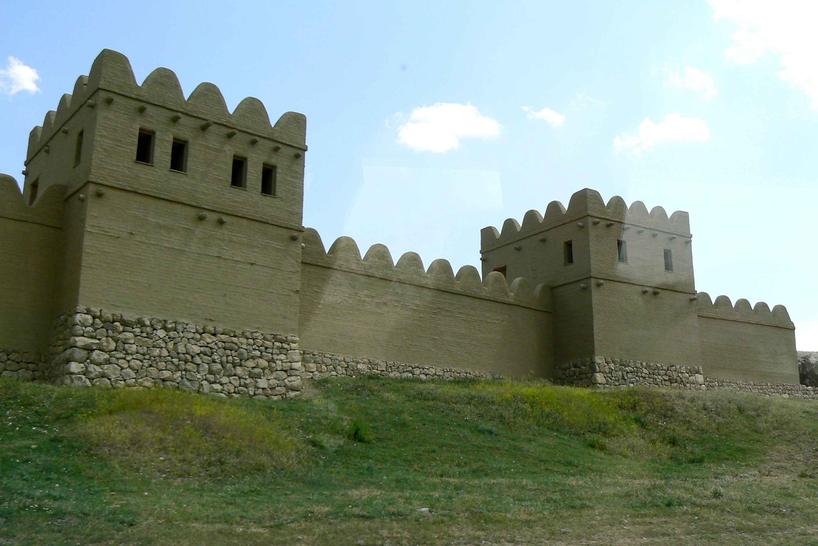 Reconstructed city wall, Hattusa, Turkey